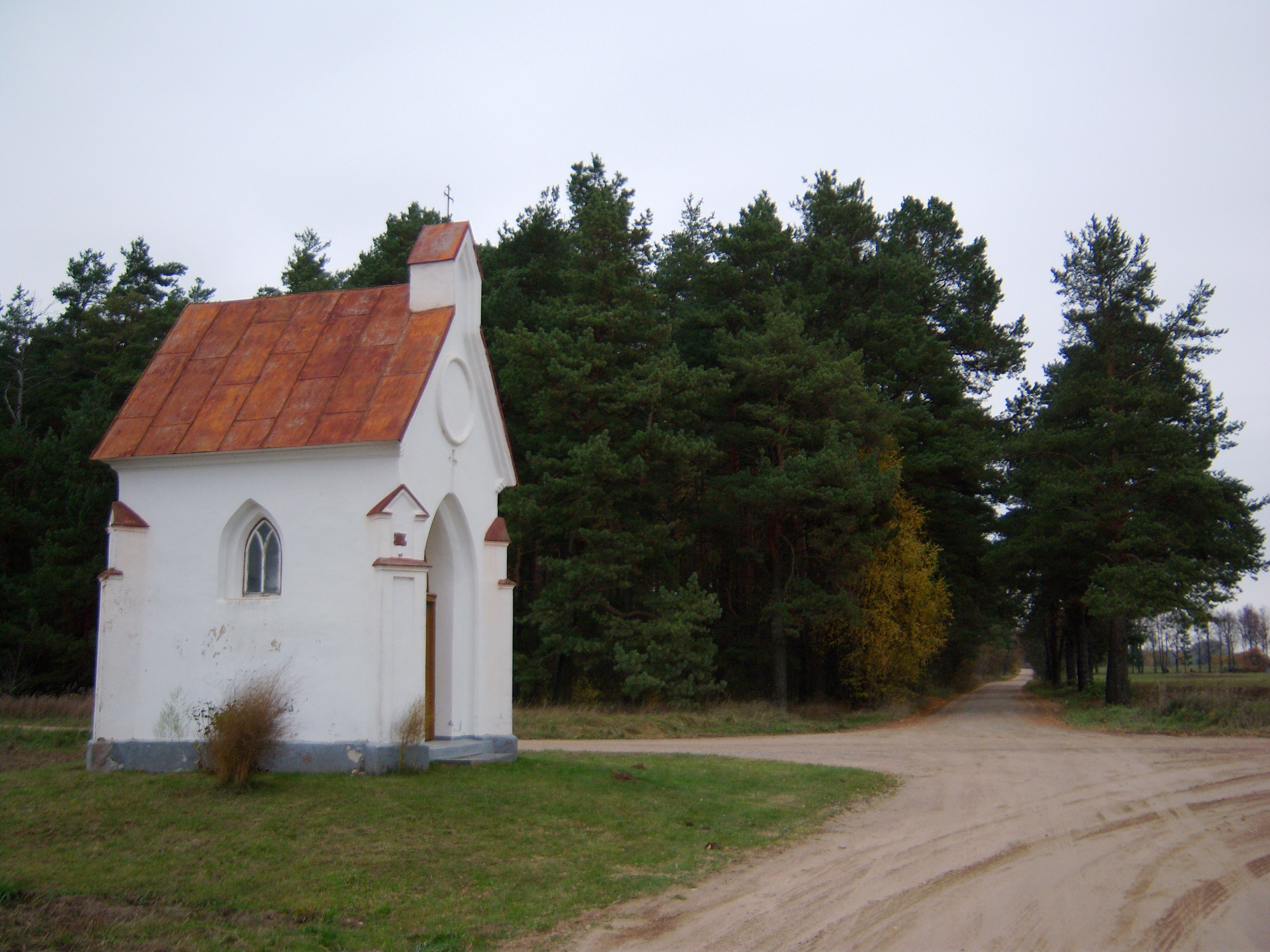 Bajorai Chapel, near Svėdasai, Lithuania